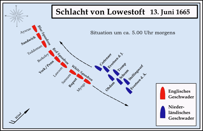 Map showing the Battle of Lowestoft in 1665